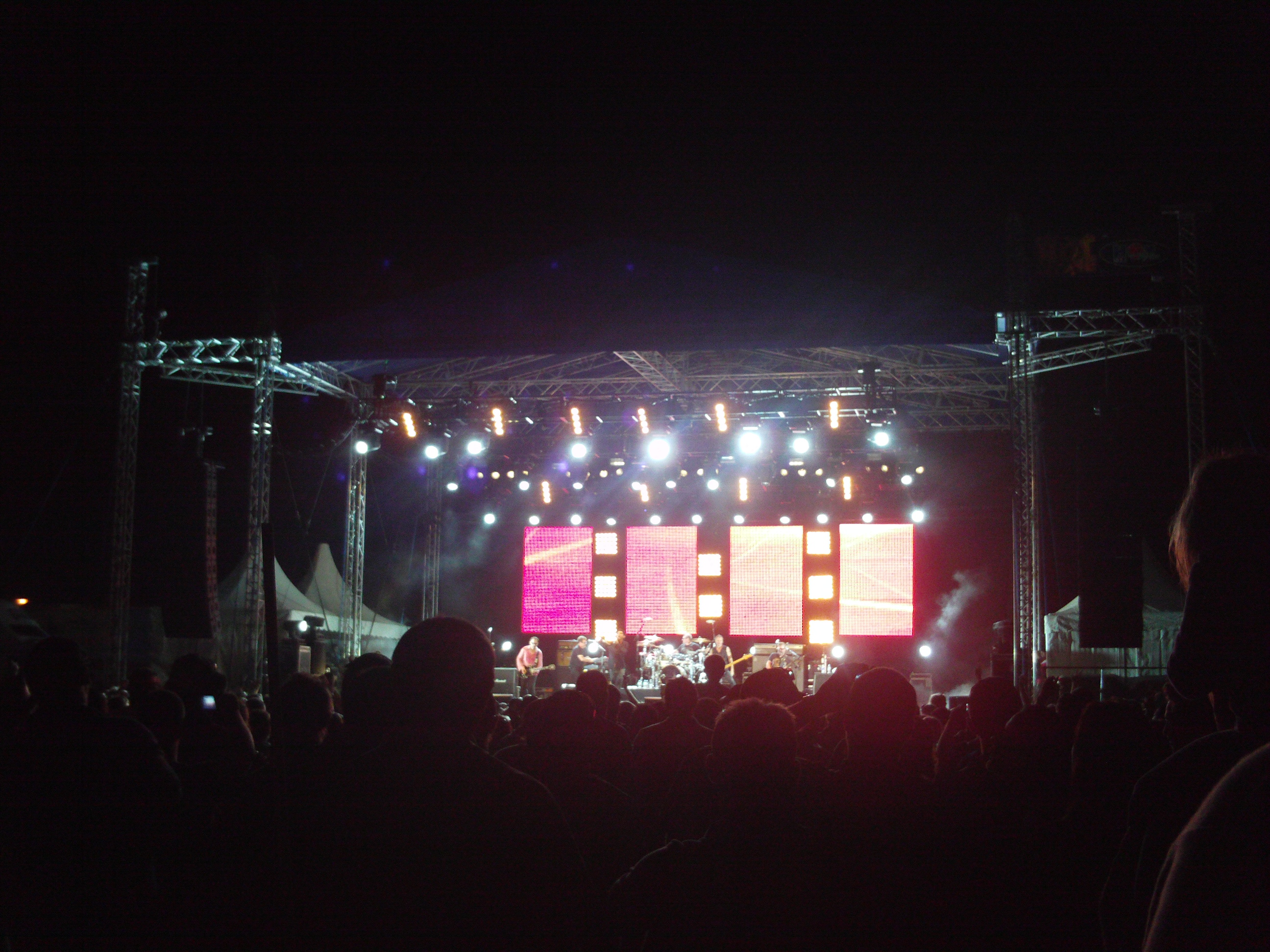 This is an image of INXS live at Reid Park in 2010